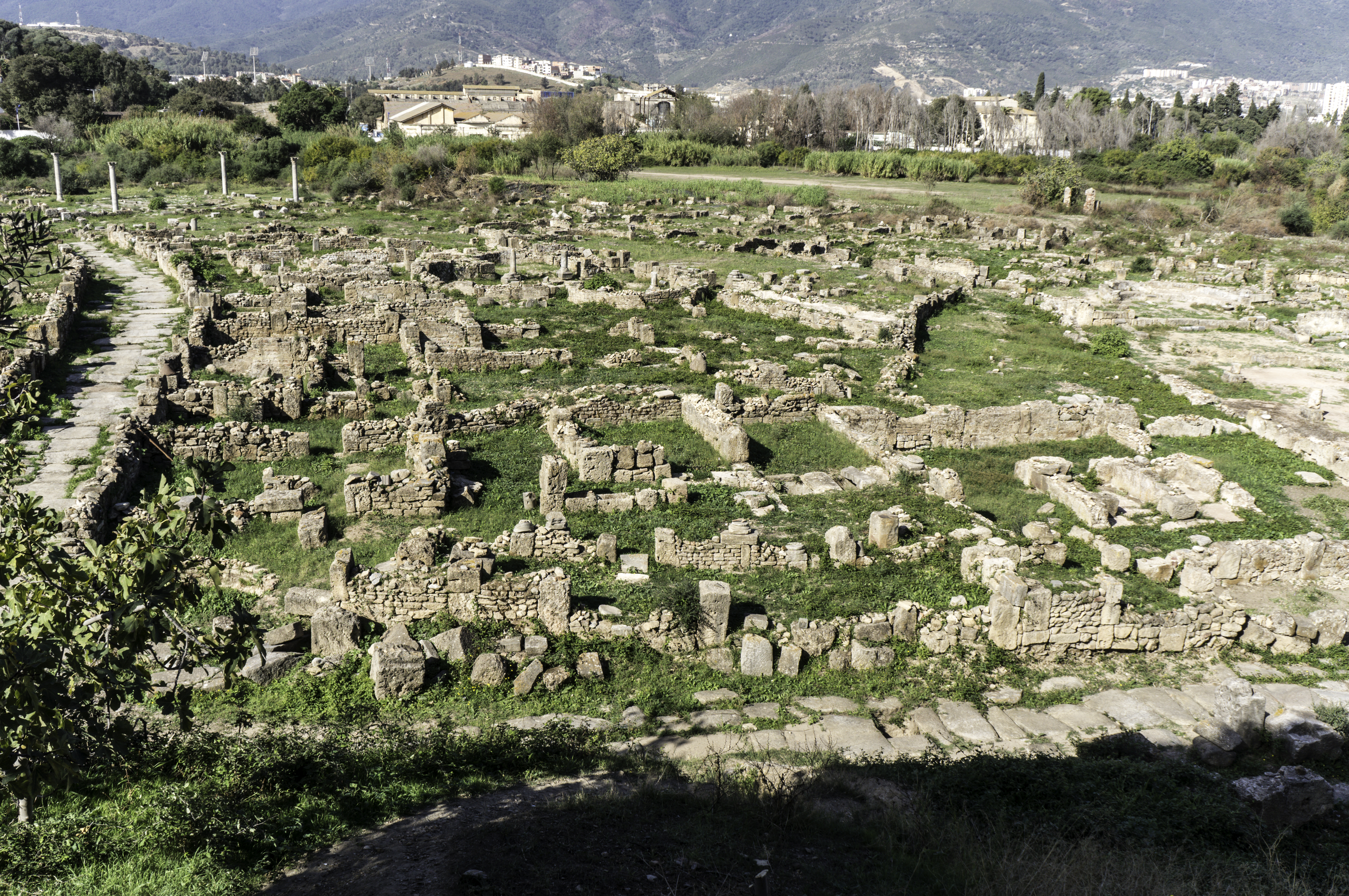 Roman ruins at Hippo Regius (Annaba)